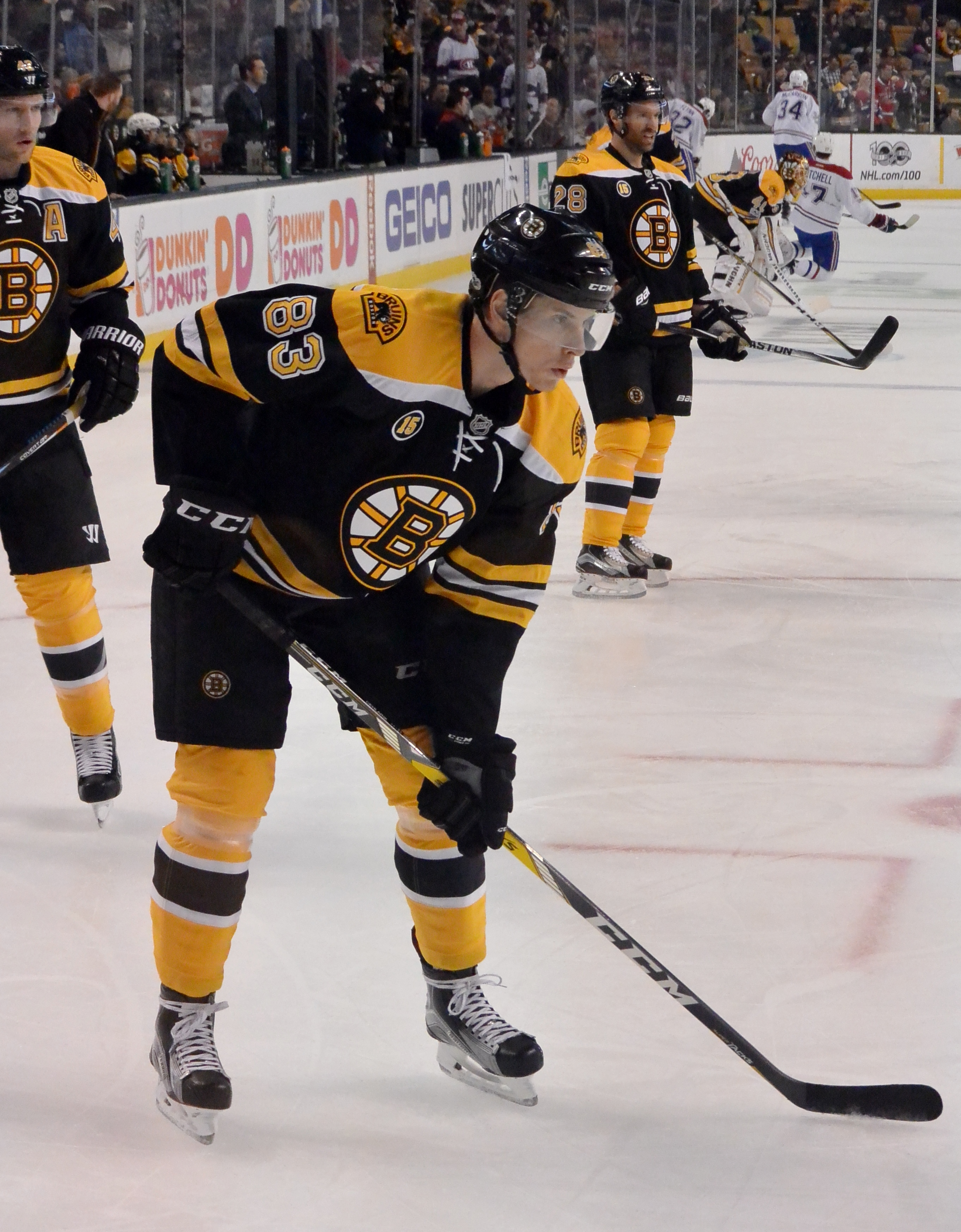 Peter Cehlarik at Bruins warm ups February 12, 2017